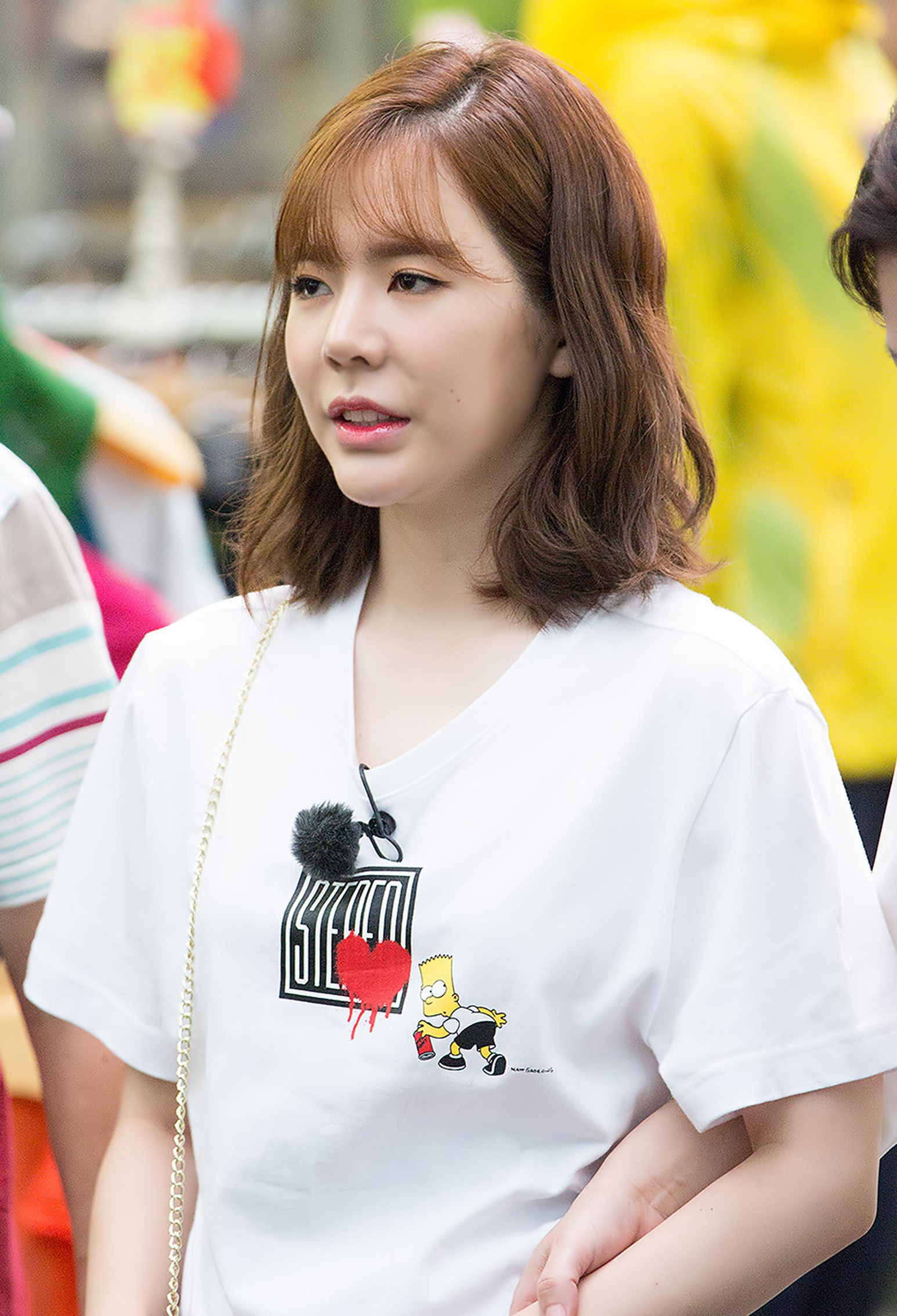 Sunny filming Cheonhajangsa at Busan Choryang market on July 26, 2016.